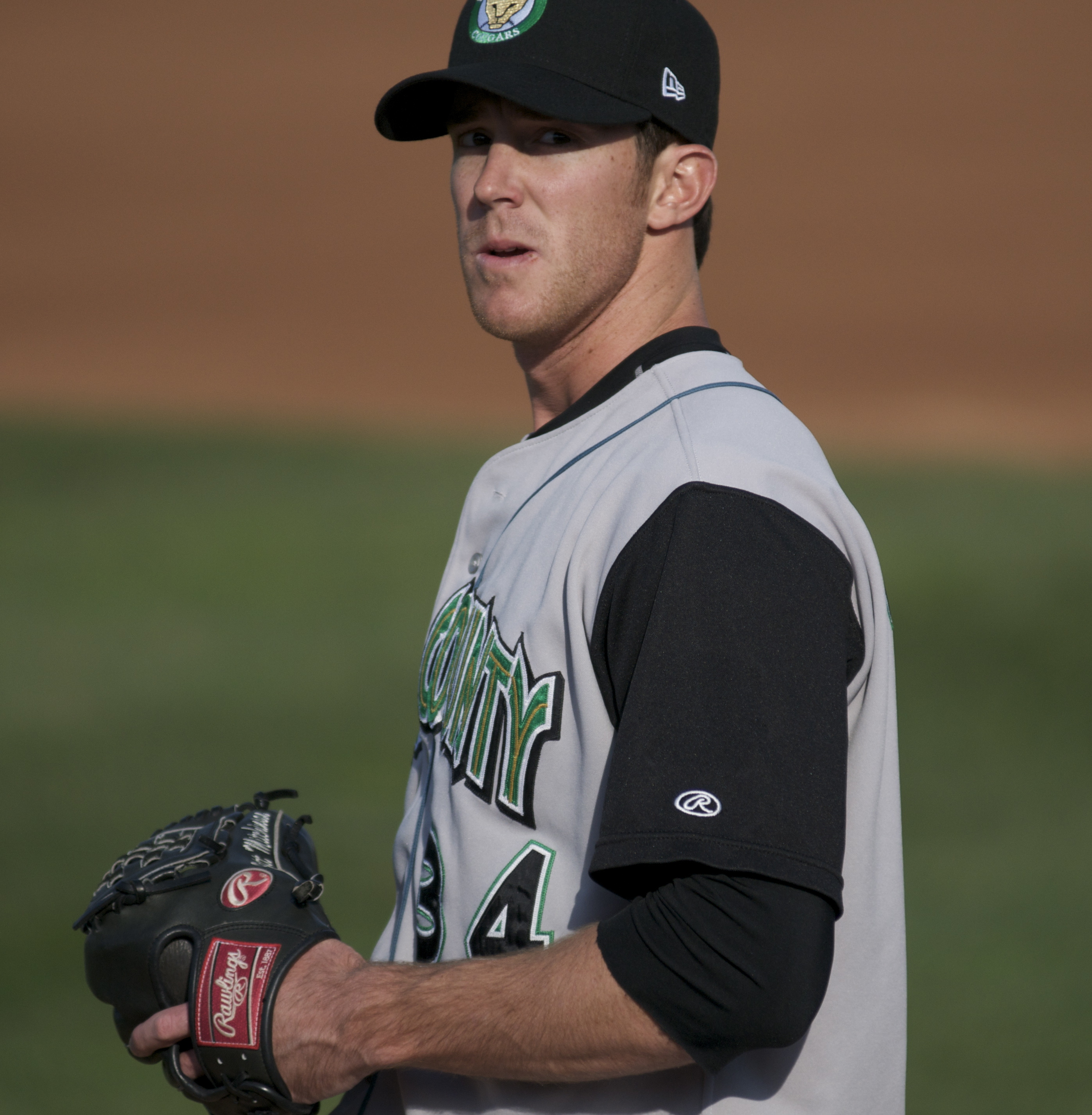 Scott Mitchinson of the Kane County Cougars in Lansing, Michigan in 2008